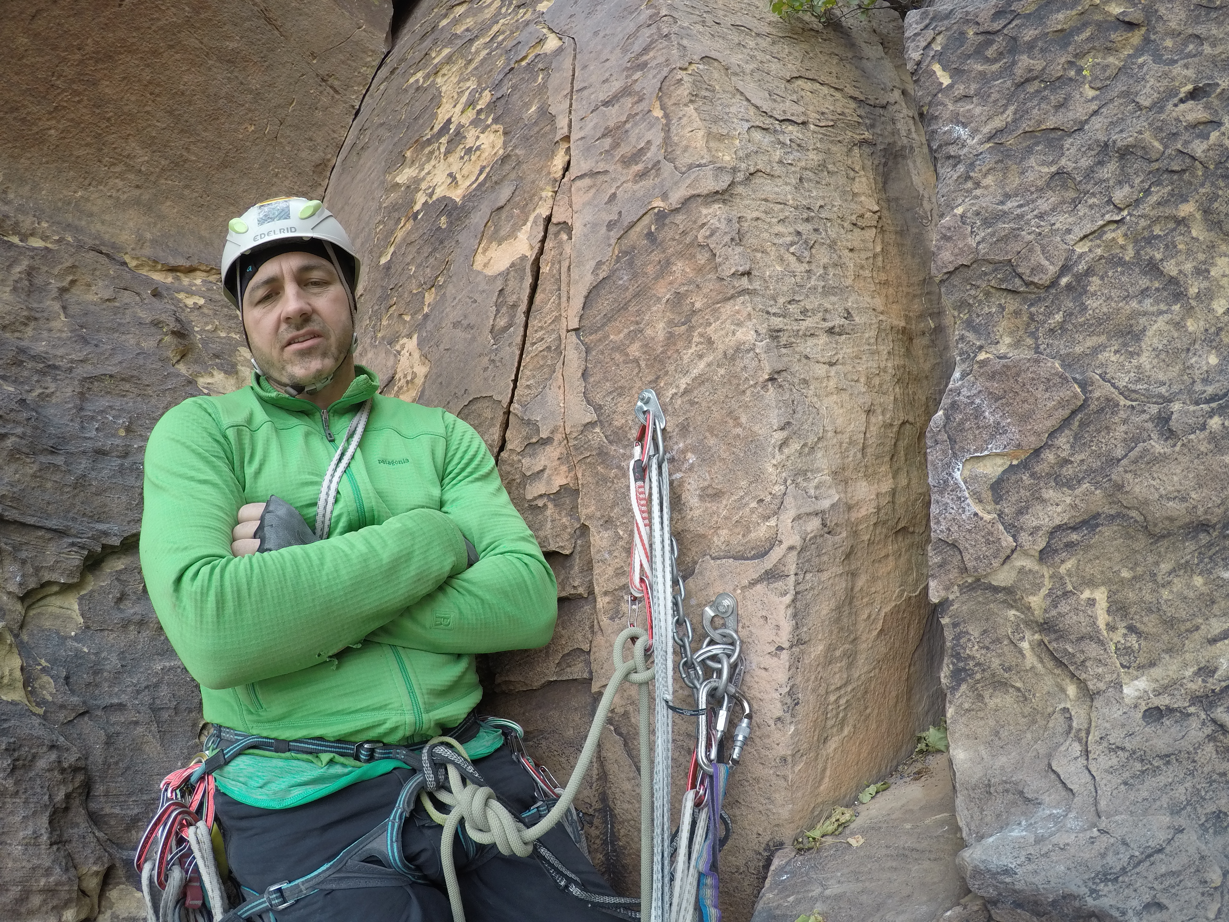 Red Rock Canyon National Conservation Area: Climber on The Nightcrawler (5.10+).